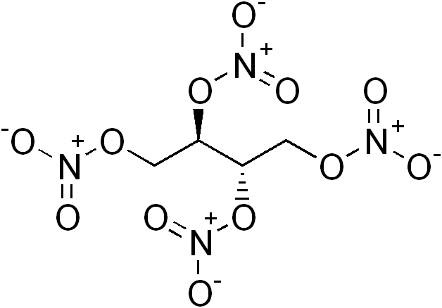 Chemical structure of erythritol tetranitrate